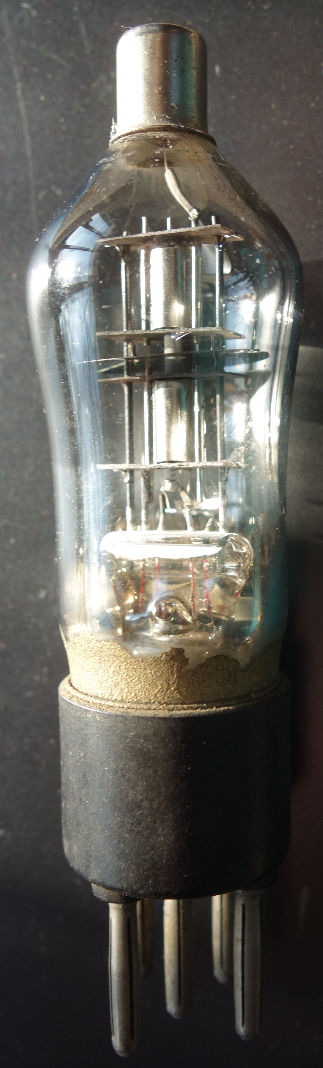 Philips AB2 duodiode system view